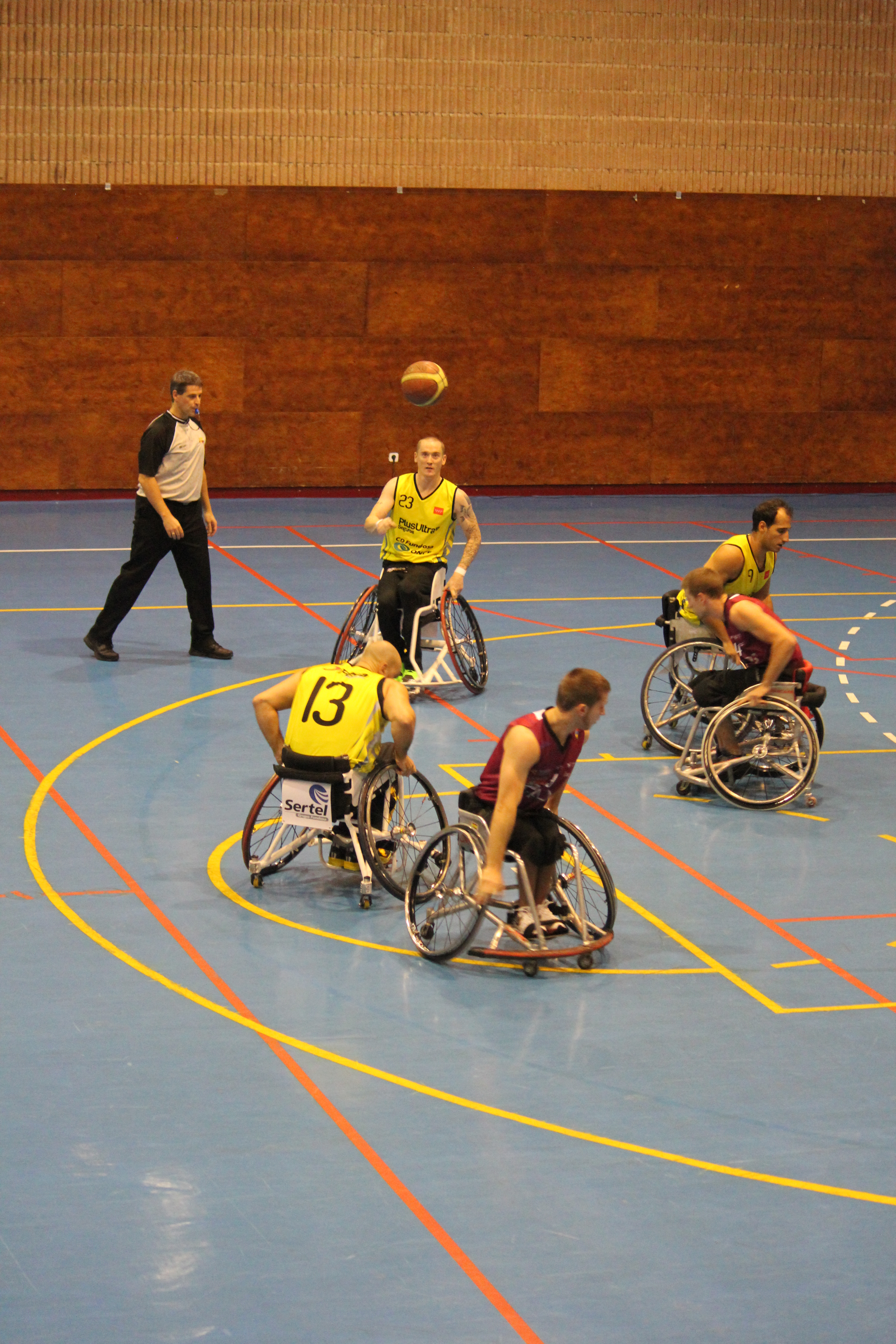 ONCE v Getafe, Madrid, November 9, 2013